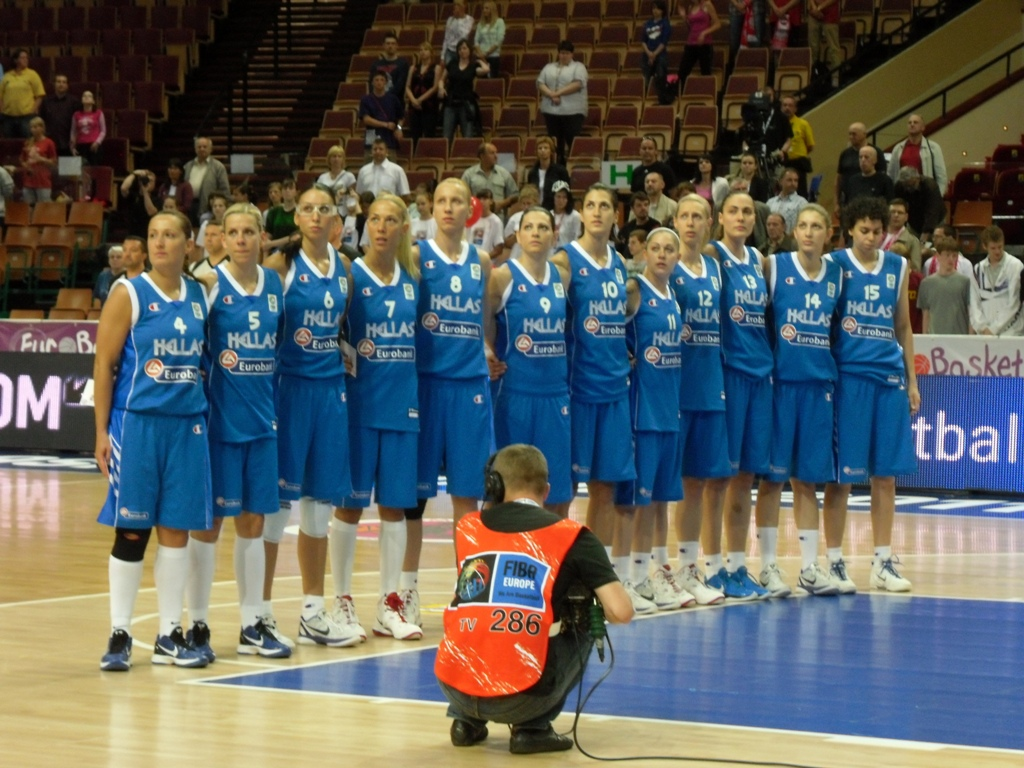 The Greek women's national basketball team participating in the FIBA EuroBasket Women 2011 contest. From left to right: Dimitra Kalentzou (4), Evdokia Stamati (5), Zoi Dimitrakou (6), Olga Chatzinikolaou (7), Styliani Kaltsidou (8), Evanthia Maltsi (9), Pelagia Papamichail (10), Thalia Kasapoglou (11), Katerina Sotiriou (12), Emmanouela Androulaki (13), Anna Spyridopoulou (14), Artemis Spanou (15).